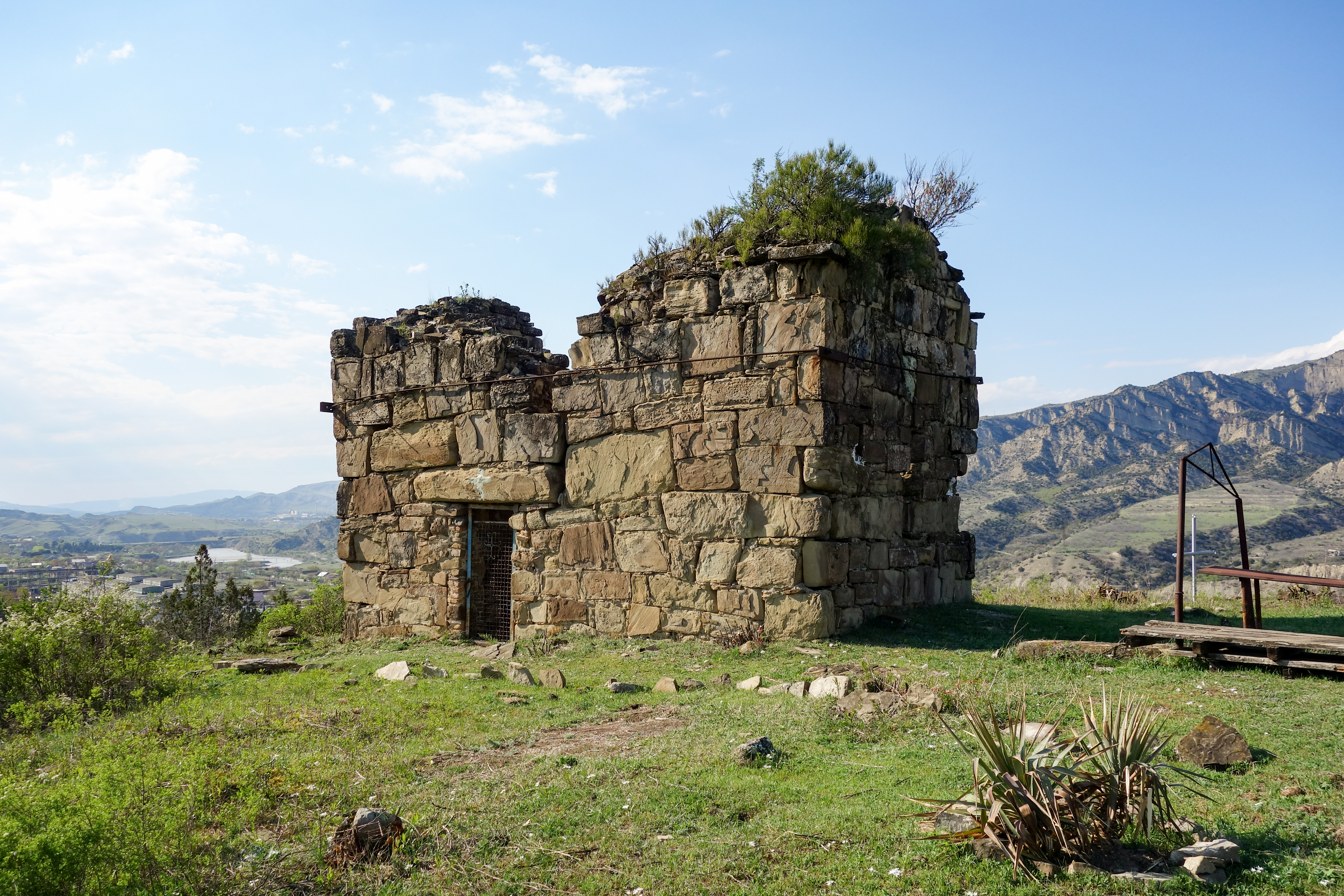 Bora Church (X c.), Dzegvi, Mtskheta-Mtianeti, Georgia